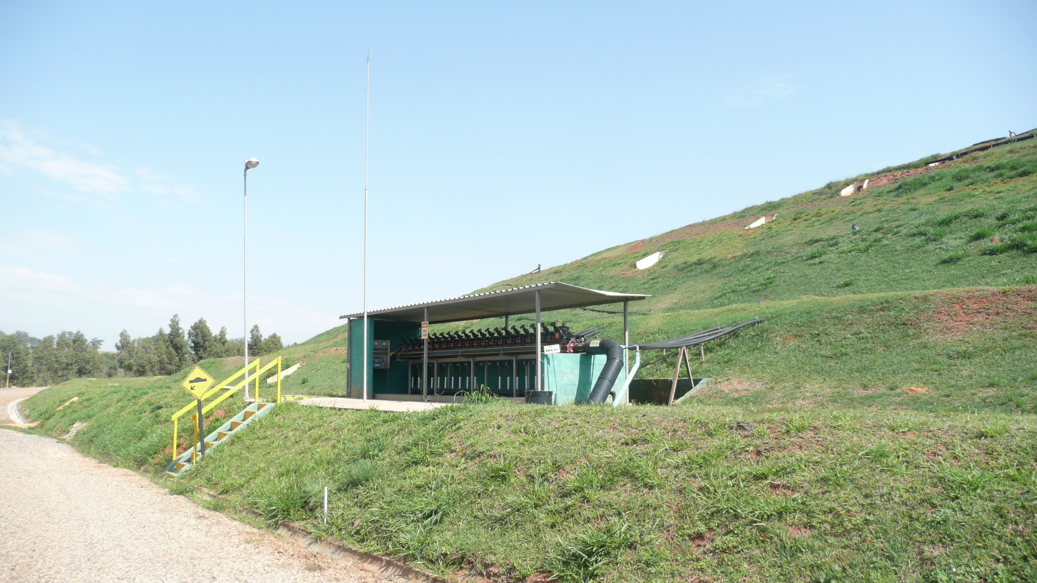 landfill gaz recuperation in Paulinia, Brésil